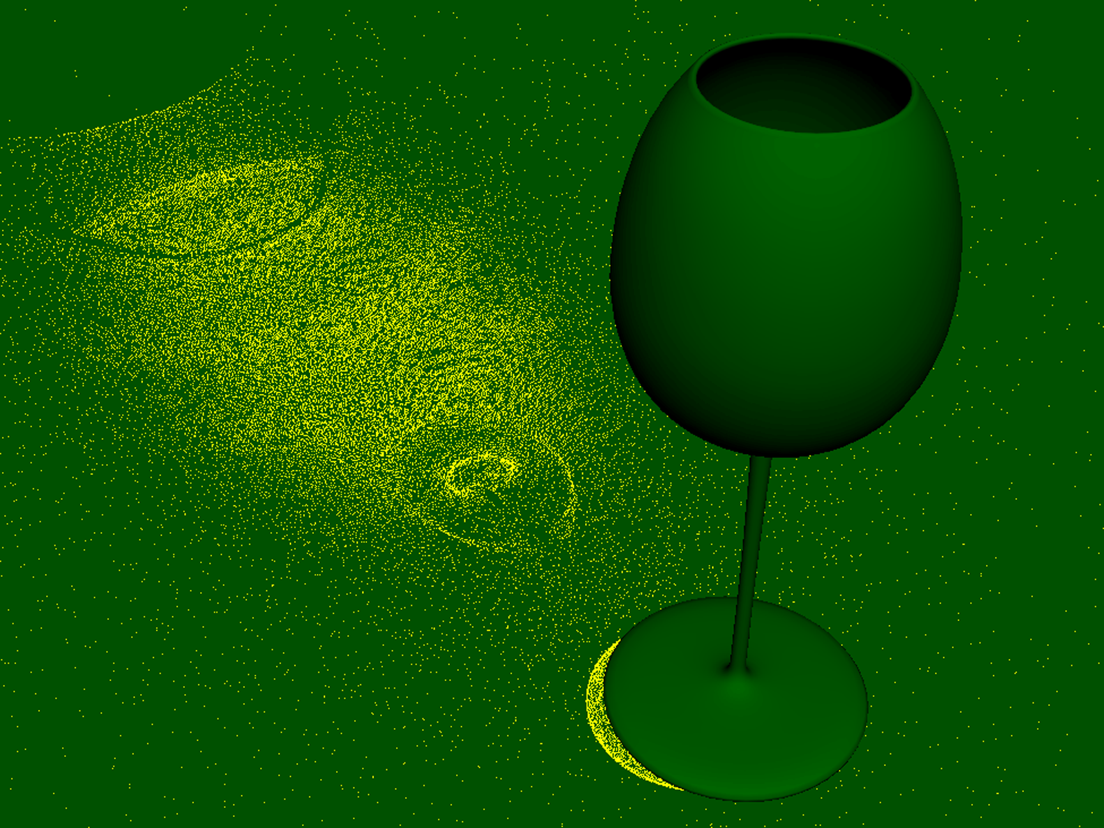 The yellow points are stored caustics of the caustics photon map.